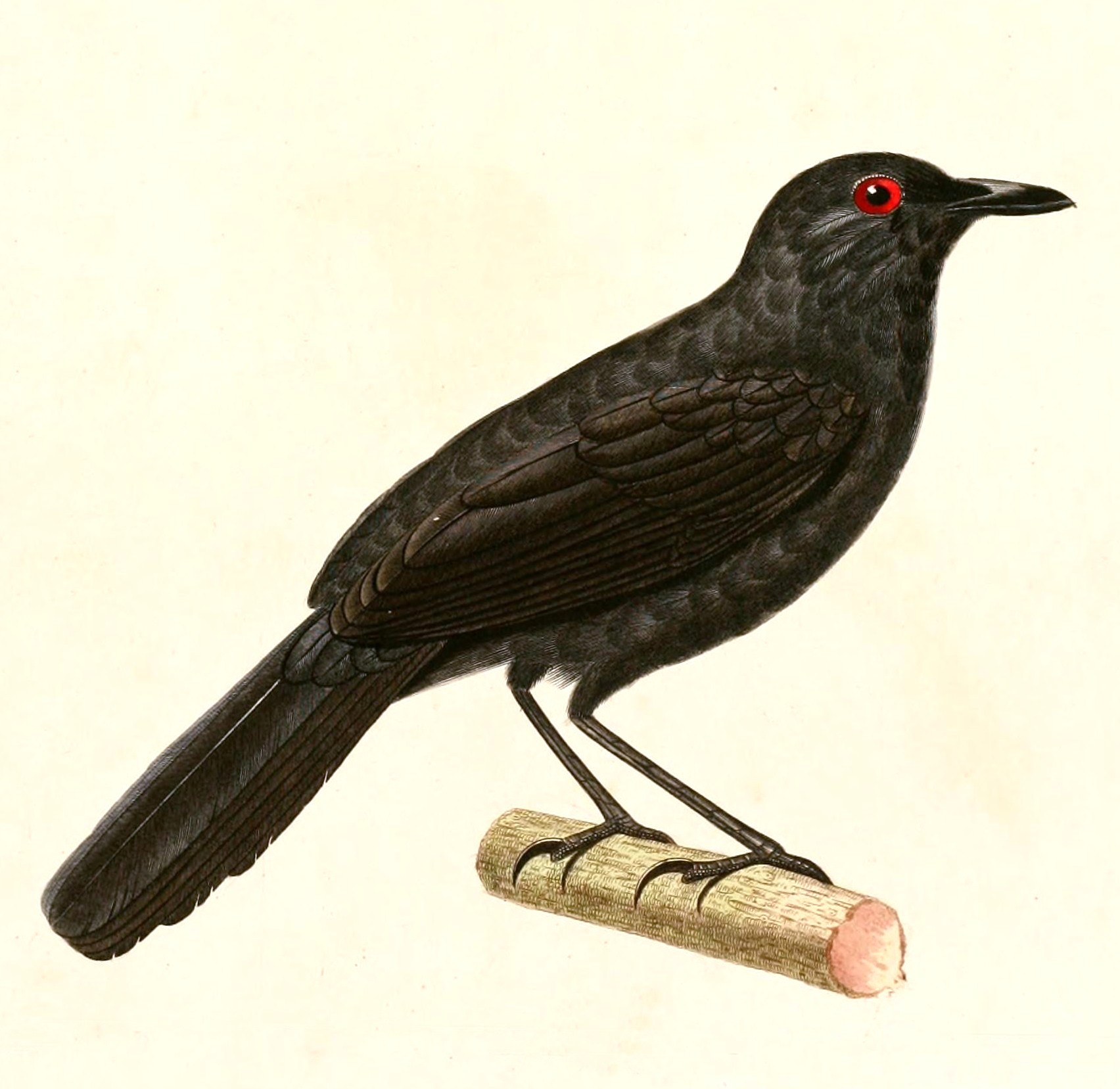 « Tamnophilus aterrinus » = Pyriglena leuconota (White-backed Fire-eye)